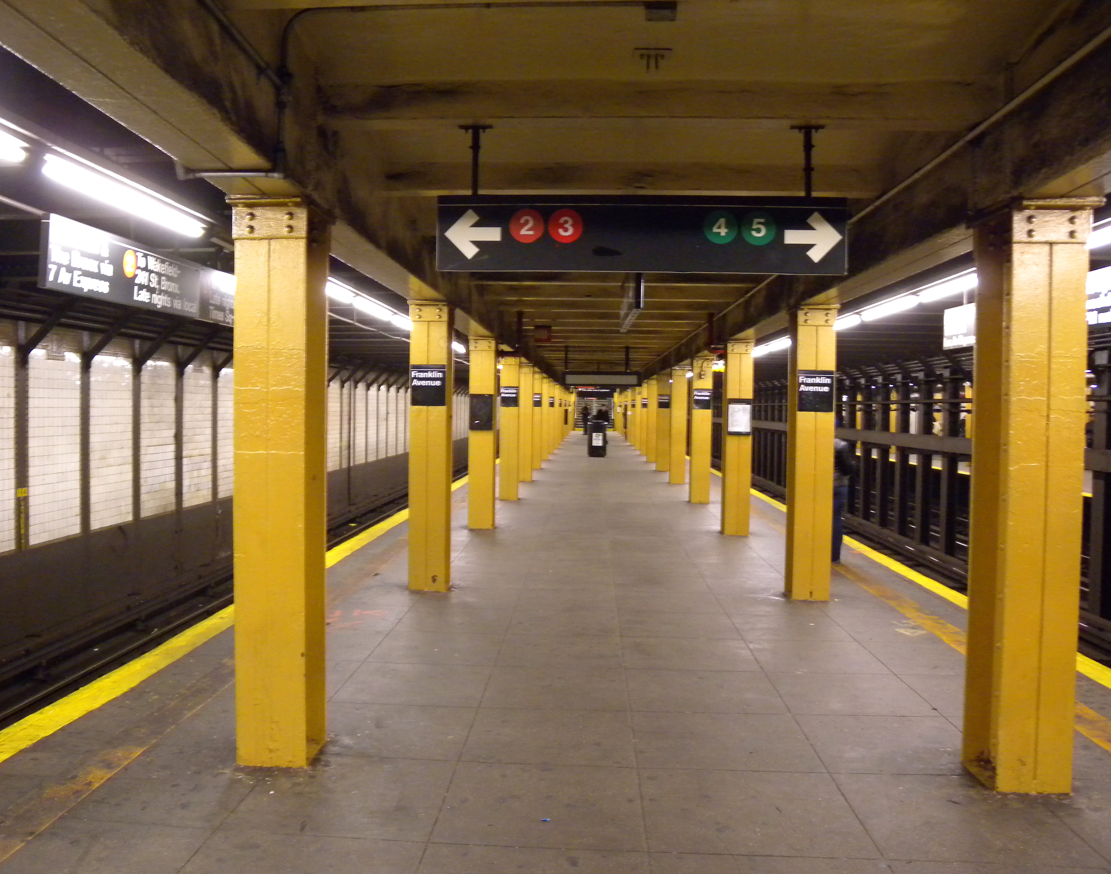 Looking east along west (RR north) bound platform of Franklin Avenue – Botanic Garden station.